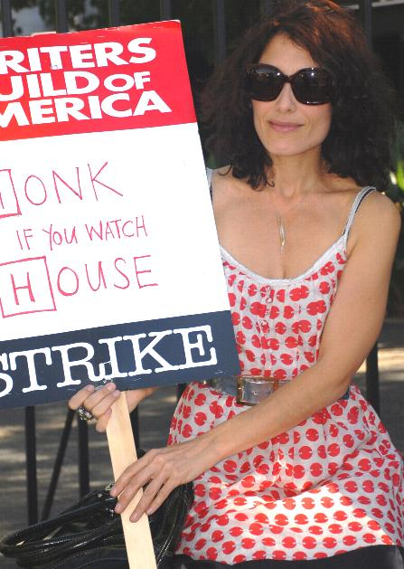 Actress Lisa Edelstein at a Writers Guild of America protest.